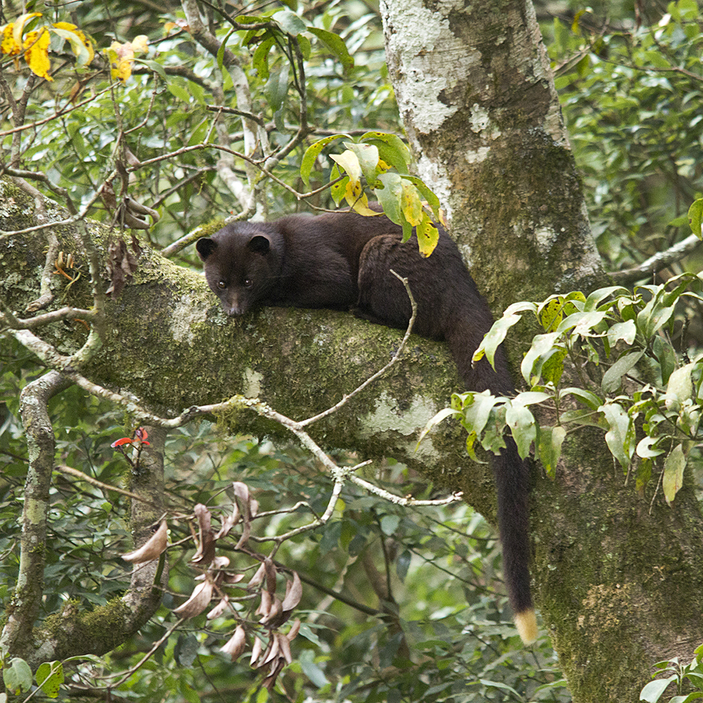 Brown Palm Civet (Paradoxurus jerdoni) in it's natural habitat from Munnar, Kerala.